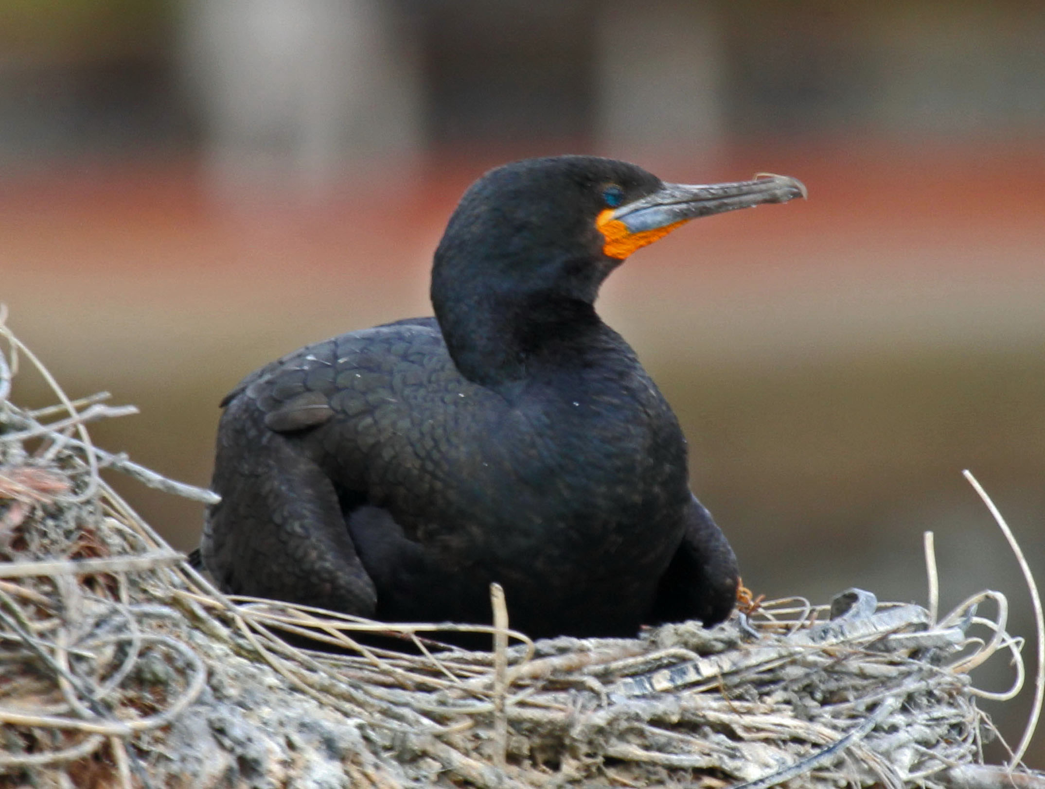 Cape Cormorant (Phalacrocorax capensis) at Cape Town waterfront, South Africa